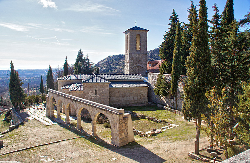 Convento de San Antonio en La Cabrera. Sierra de Madrid.